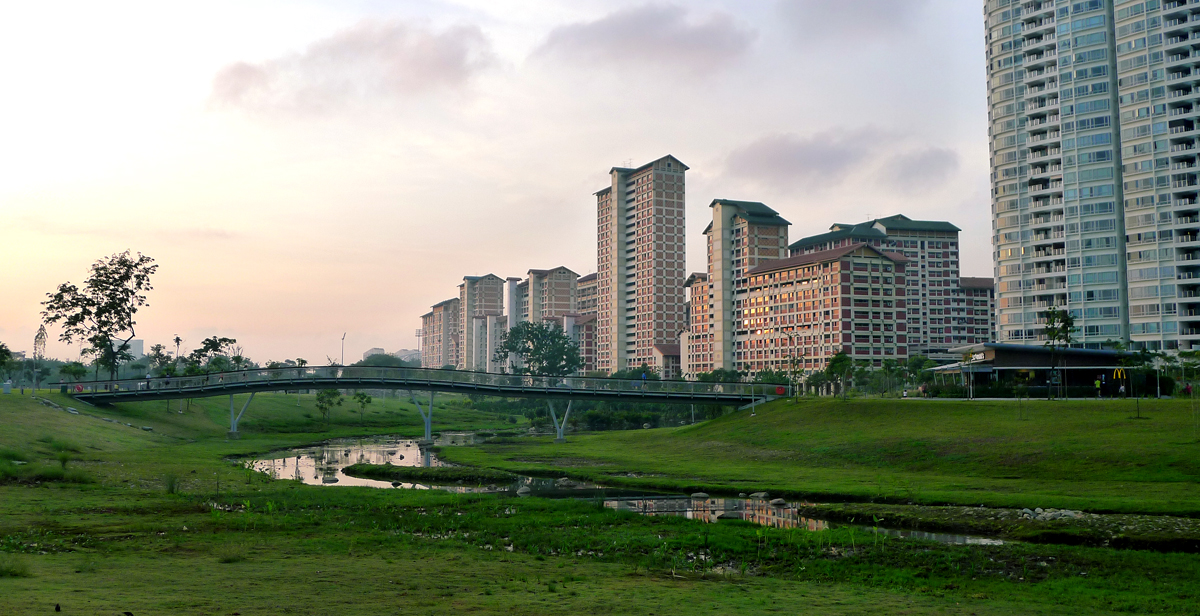 Evening at Bishan.